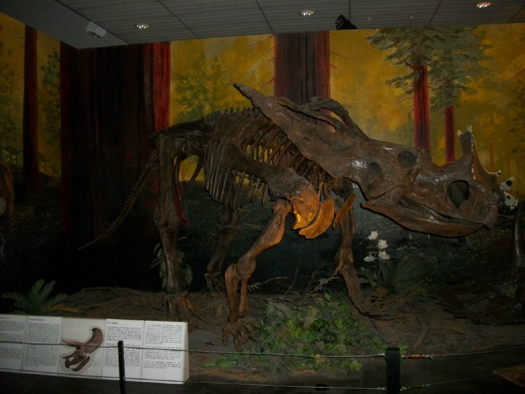 Anchiceratops model, Dinosaur Museum, Canberra